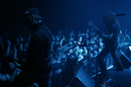 Japanese Tour, 2008